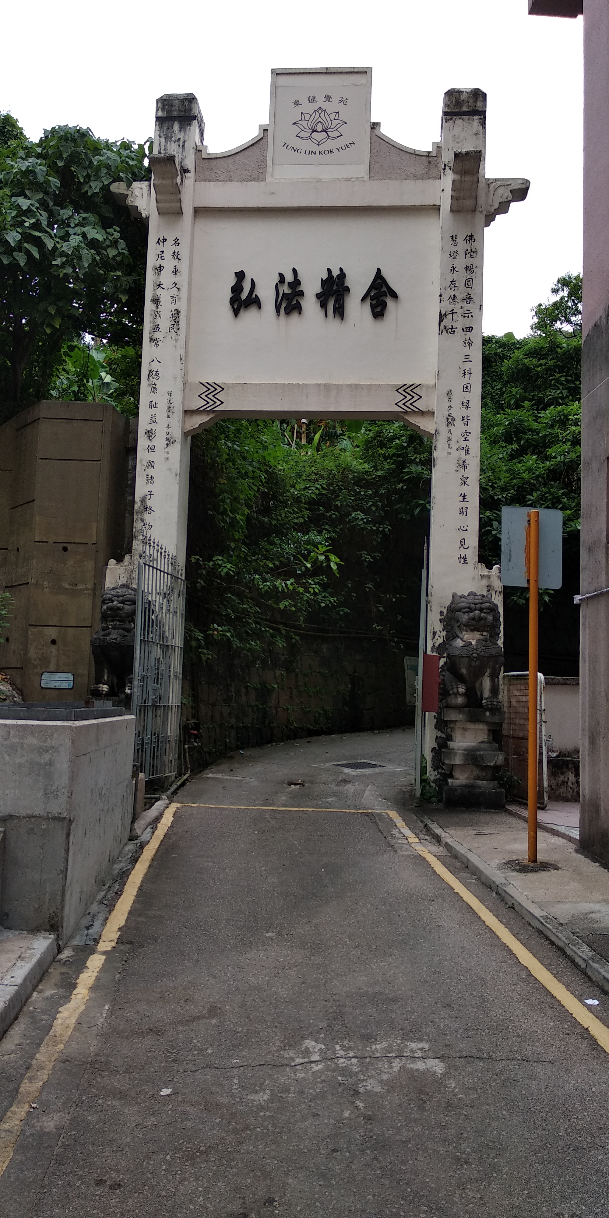 The archway of Tung Lin Kok Yuen Wang Fat Ching She. 中文（香港）: 東蓮覺苑弘法精舍正門牌坊。